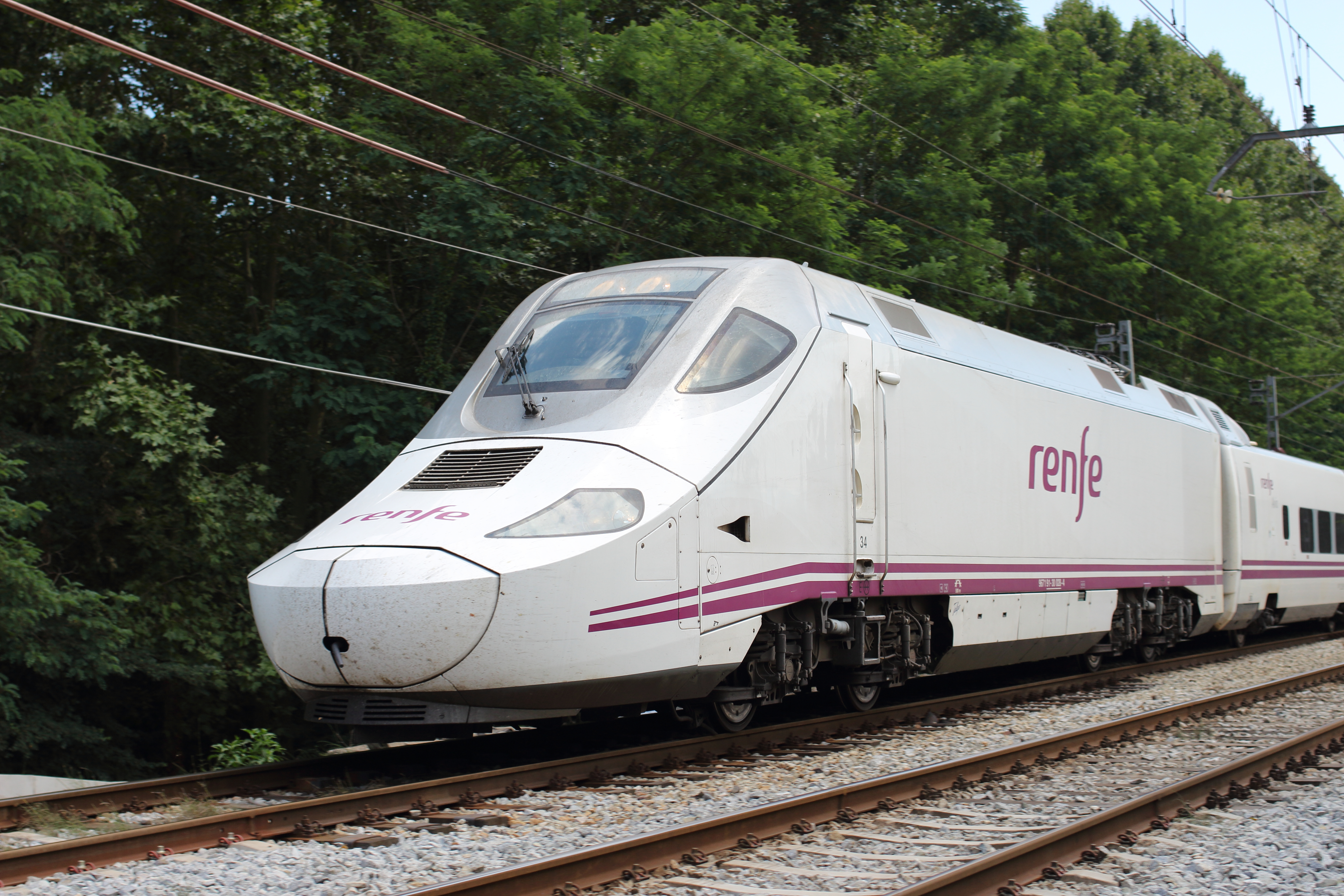 RENFE Class 130 (Talgo 250) Spain AVE near Macanet-Massanes Station, the Train is on normal old Track Barcelona Girona not at the Highspeed System. Renfe 130 "The Duck"